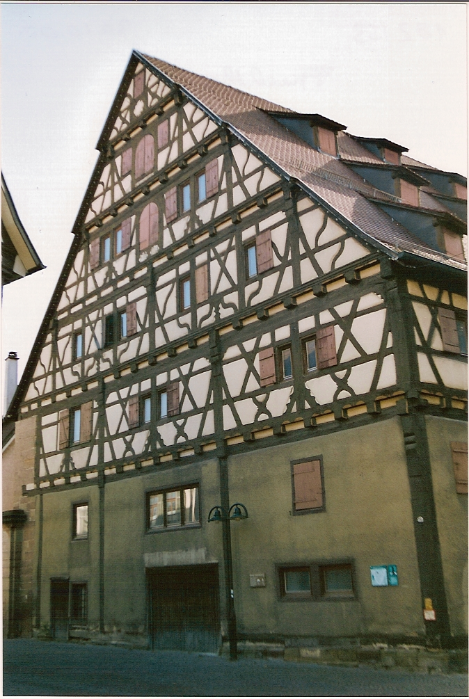 Stiftsfruchtkasten Herrenberg (a city in Baden-Württemberg, south-western Germany), seen from the east. Picture taken in the fall of 2005.